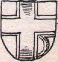 Coat of arms Tarnawa from Herby polskie... by Antoni Swach